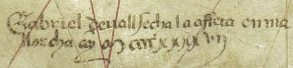 Portolan chart signed by Majorcan cartographer Gabriel de Vallseca, dated 1447, held by the Bibliothèque nationale de France in Paris, France.